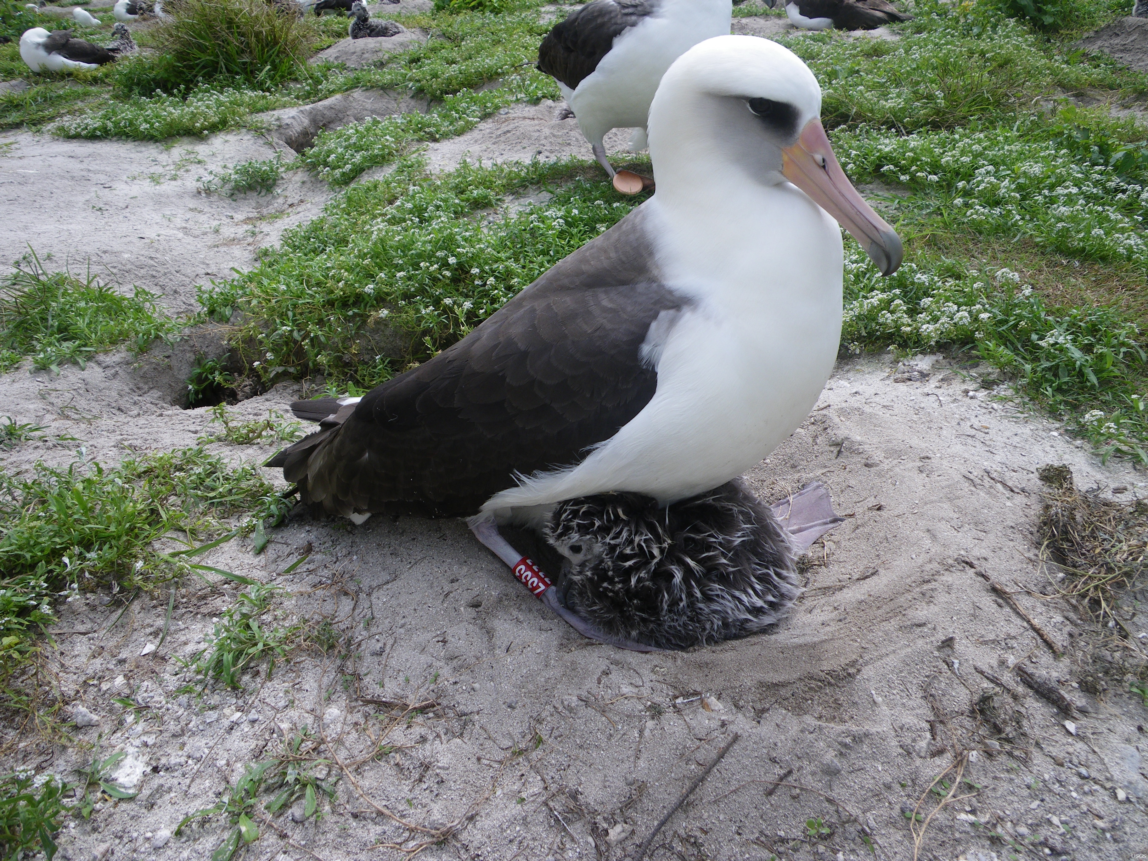 The Laysan Albatross "Wisdom", at at least 60 the oldest known wild bird in the United States, with her newly hatched chick, at Midway Atoll National Wildlife Refuge in March 2011